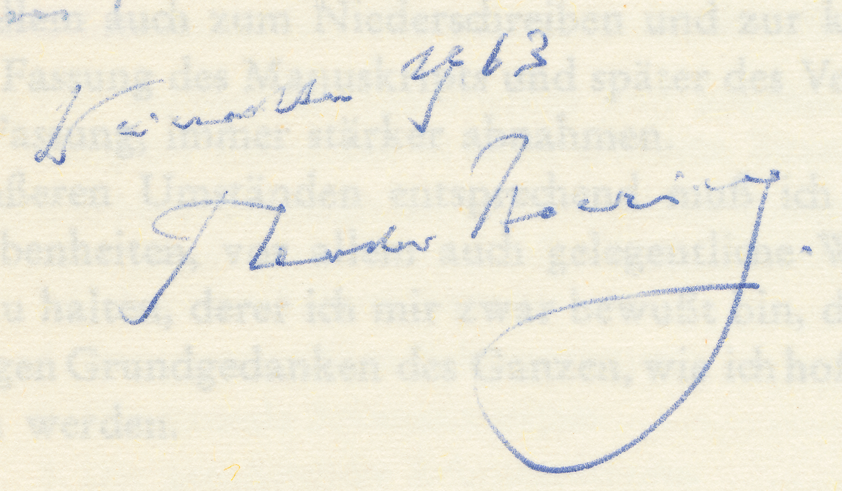 Signature of Theodor Haering, dated “Christmas 1963”. Detail of a dedication from a copy of his last book Philosophie des Verstehens (Max Niemeyer ed., Tübingen 1963).